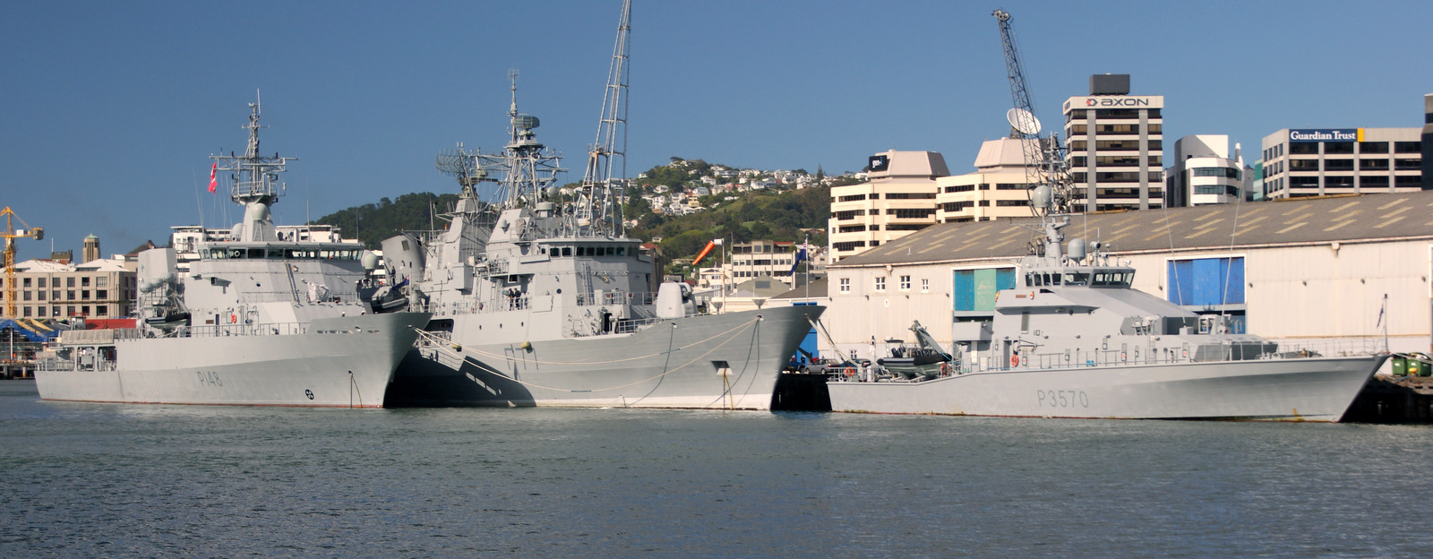 HMNZS Otago (left) alongside HMNZS Te Kaha (centre) & HMNZS Taupo (right) in Wellington